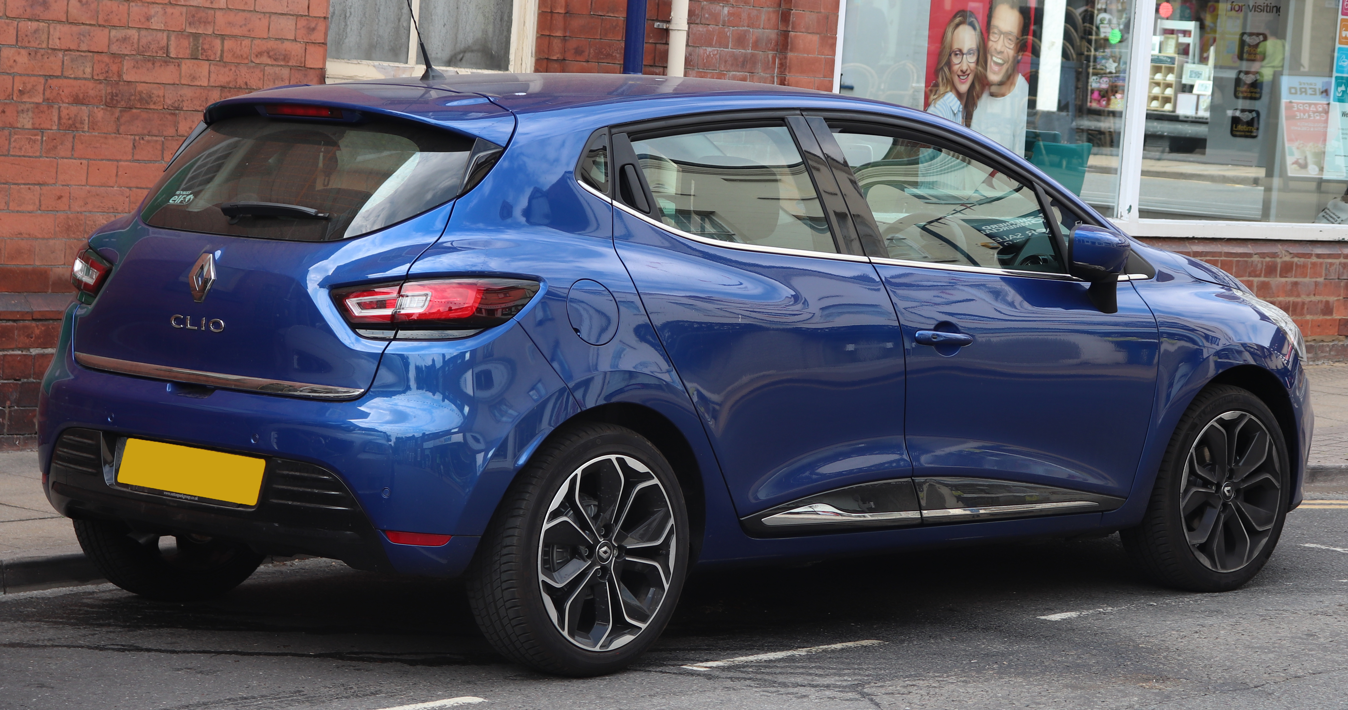 2018 Renault Clio Dynamique S NAV TCE 900cc Rear Taken in Warwick